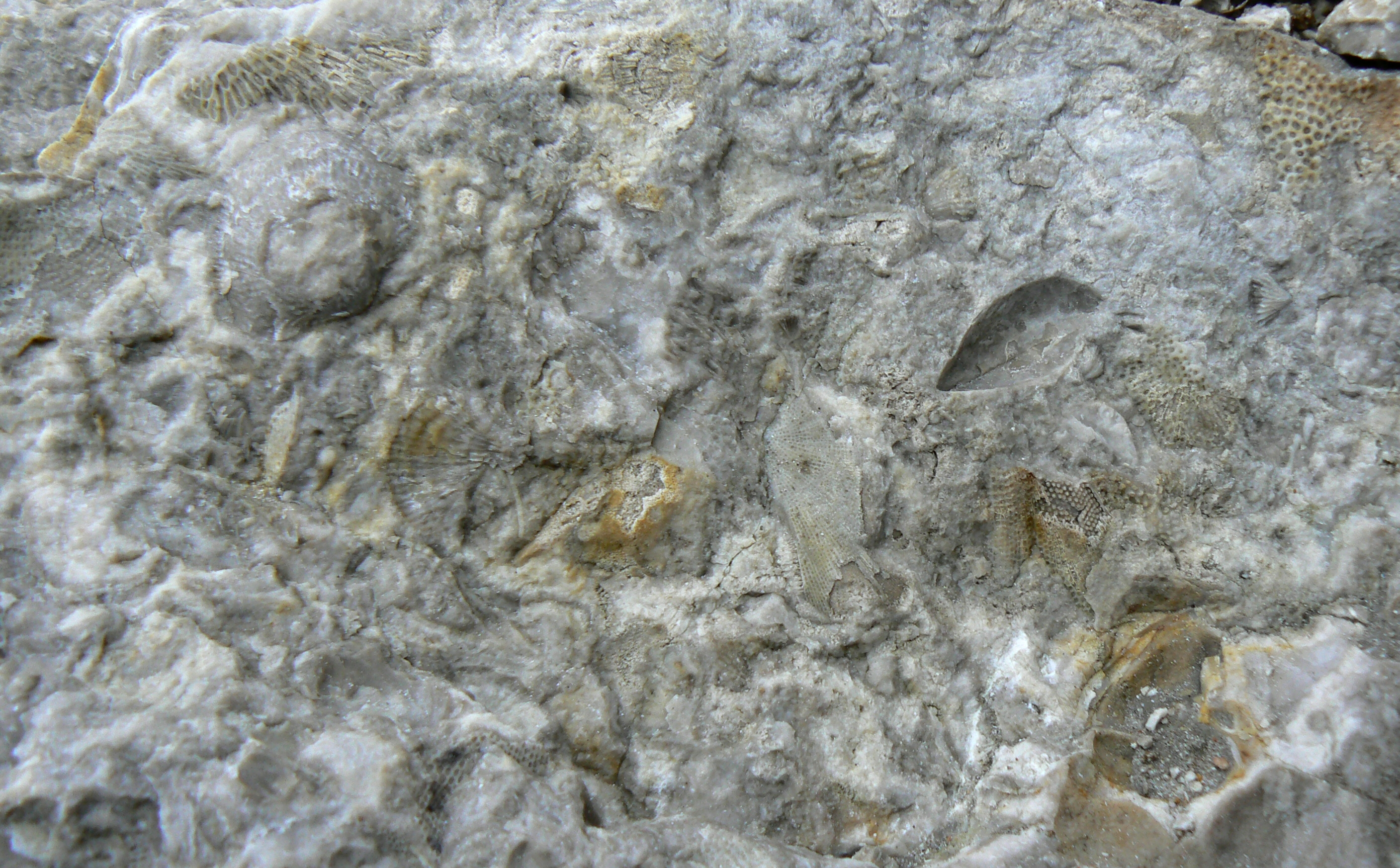 Koněprusy Limestone in Nature monument Zlatý kůň in Beroun District